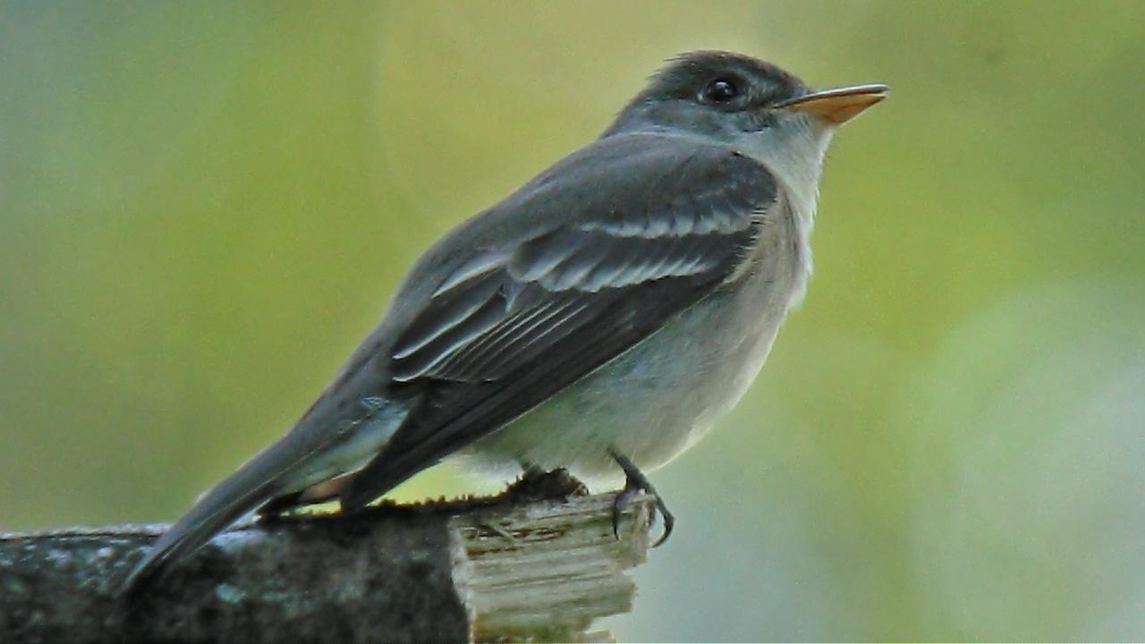 Tower Grove Park in St. Louis MO on 5/21/11